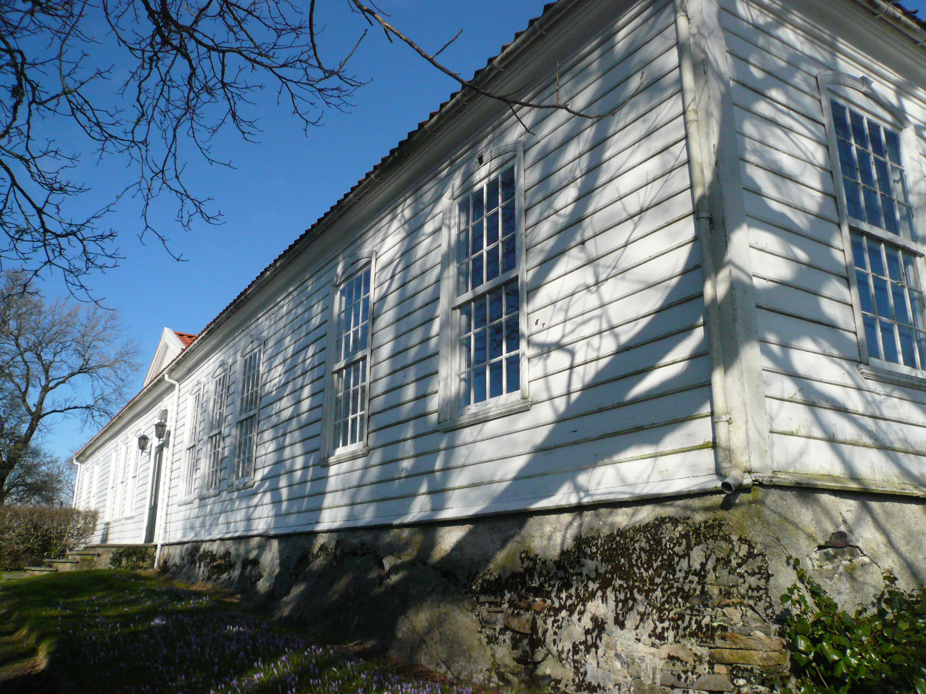 Store Milde, Bergen, Norway